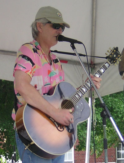 Picture of Ernie Hawkins performing at Rootz: The Green City Music Festival sponsored by Calliope: Pittsburgh Folk Music Society in Pittsburgh, Pennsylvania, on July 12, 2008.